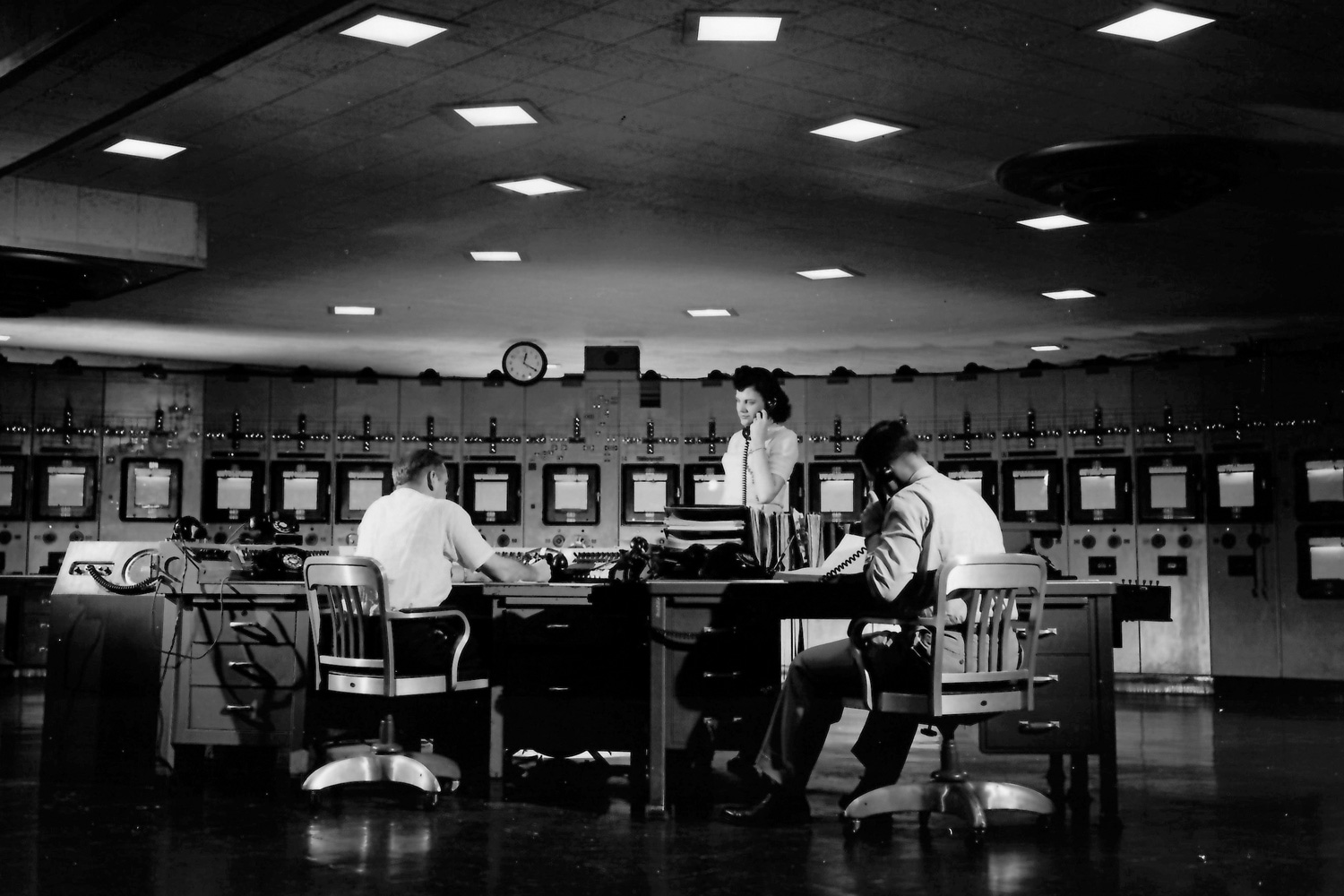 Central control room at K-25